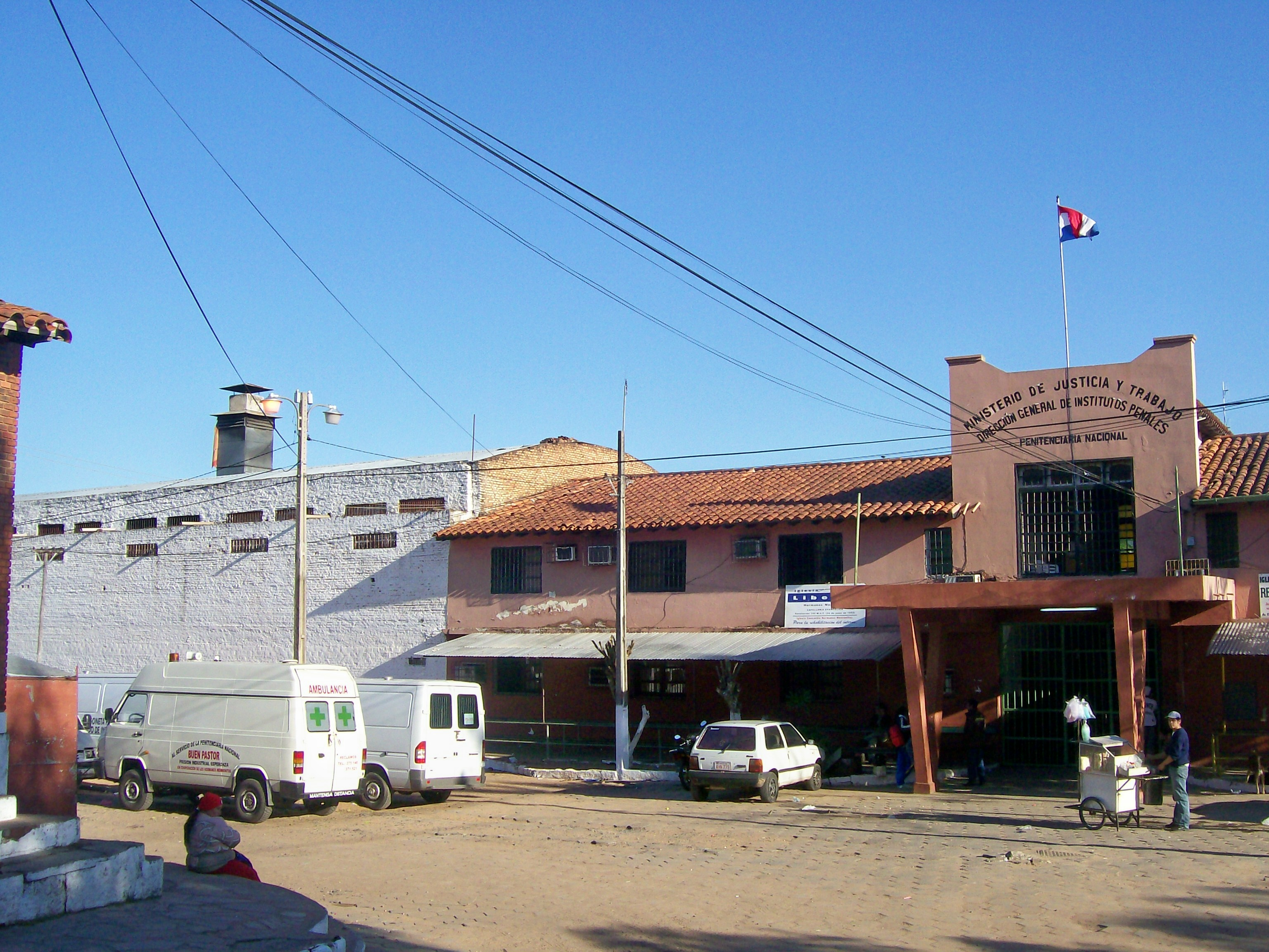 Tacumbu prison